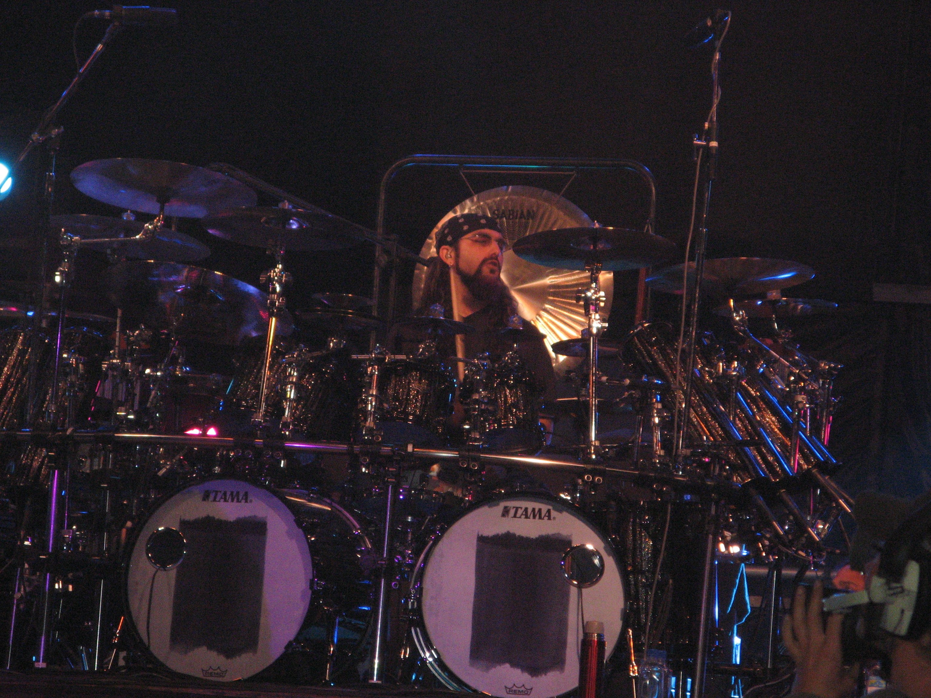 Drummer Mike Portnoy performing at a Dream Theater concert.